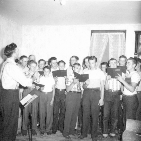 Caption: September 7, 1948. Kokomo, Indiana. Men's chorus under direction of Dorwin Myers. Collection Citation: Mennonite Community Photograph Collection, 1947-1953, Service. HM4-134 Box 1 Photo 092-11. Mennonite Church USA Archives - Goshen. Goshen, Indiana.